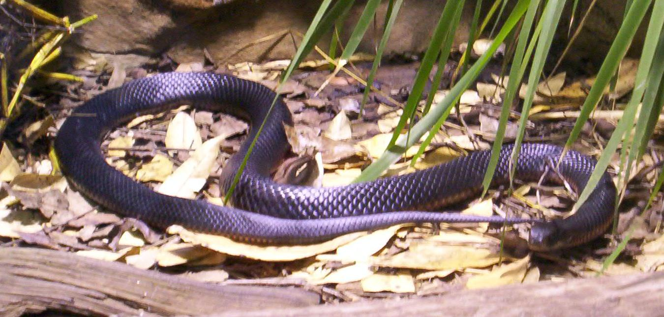 Red-Bellied Black Snake. Photo was taken at Brisbane Forest Park, Brisbane, Queensland, Australia